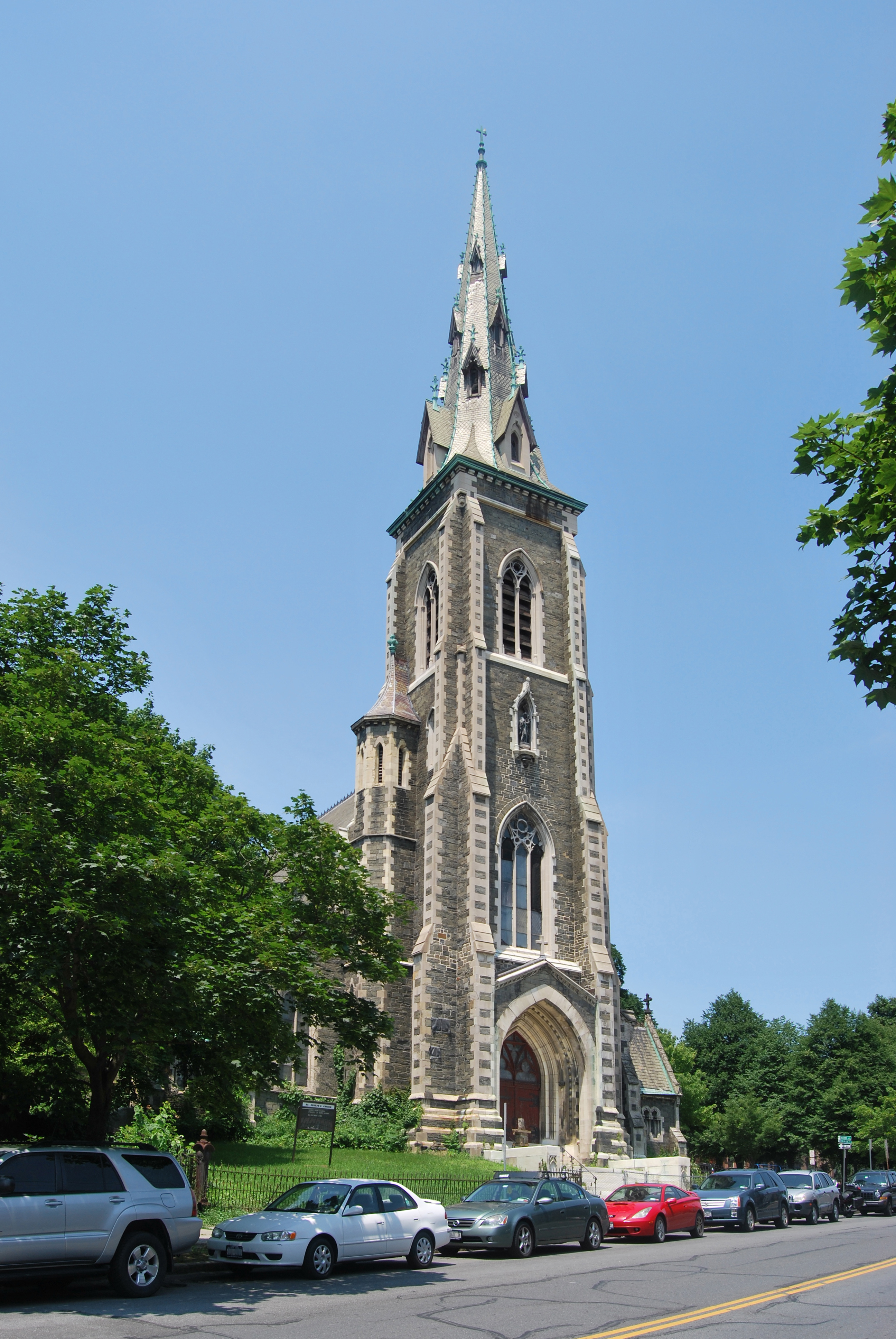 St. Joseph's Church in the Arbor Hill neighborhood of Albany, New York